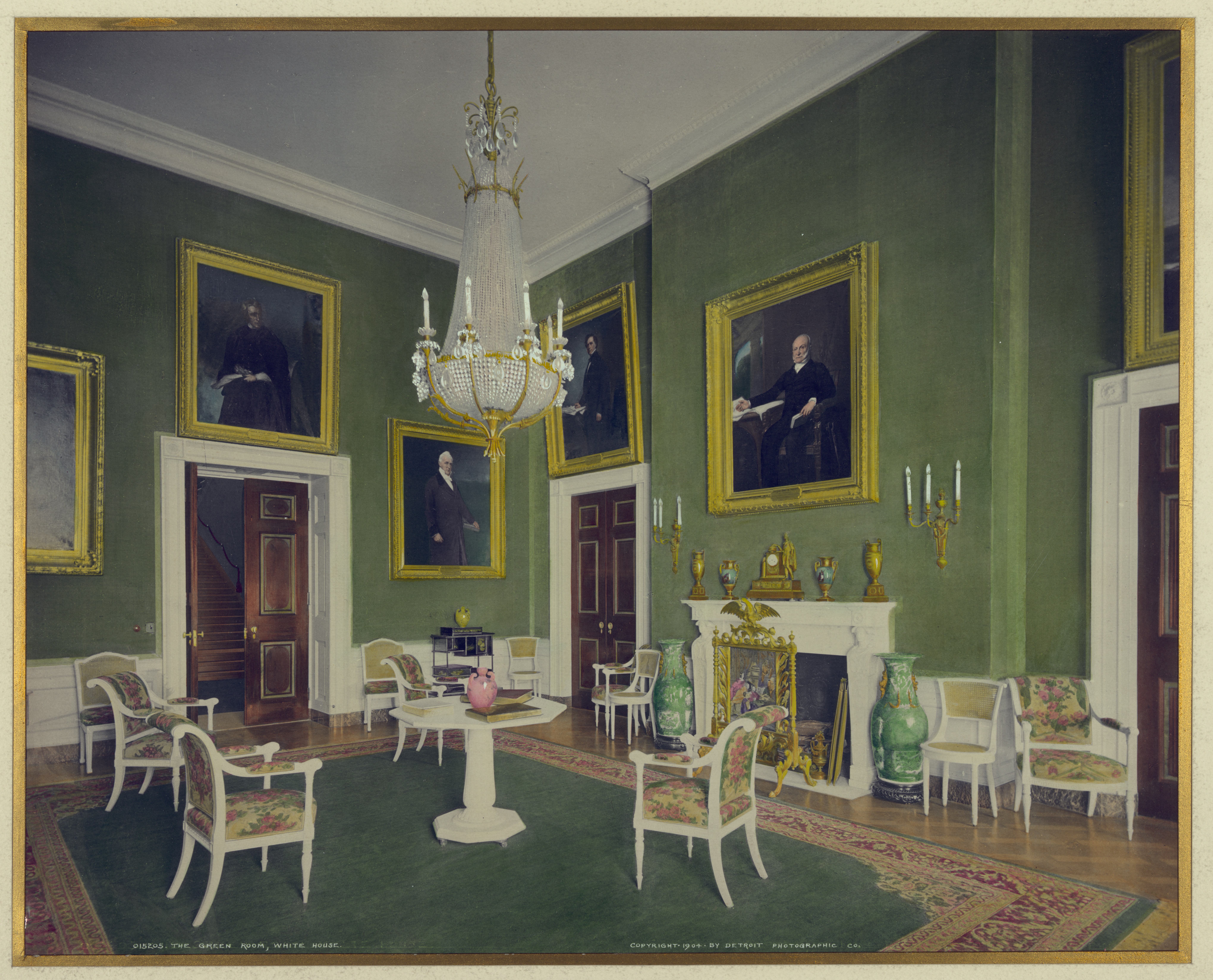 TITLE: The Green Room, White House CALL NUMBER: Unprocessed in PR 13 CN 2006:040 [item] [P&P] REPRODUCTION NUMBER: LC-DIG-ppmsca-11676 (digital file from original item) RIGHTS INFORMATION: No known restrictions on publication. MEDIUM: 1 photographic print : platinum, hand-colored ; 15 3/4 x 19 3/4 in. (photograph) CREATED/PUBLISHED: c1904. NOTES: No. 015205. Copyright 1904 by Detroit Photographic Company. Title from item. Gift of; Marjorie M. Fisher; 2006. SUBJECTS: White House (Washington, D.C.)--Facilities--1900-1910. Rooms & spaces--Washington (D.C.)--1900-1910. Furnishings--1900-1910. FORMAT: Platinum prints Color 1900-1910. REPOSITORY: Library of Congress Prints and Photographs Division Washington, D.C. 20540 USA DIGITAL ID: (digital file from original item) ppmsca 11676 CONTROL #: 2006680309